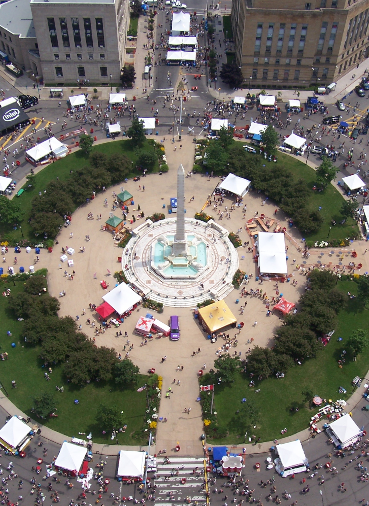 Photo of Taste of Buffalo in Buffalo, NY. Taken from the City Hall observation deck on 12 July 2008.